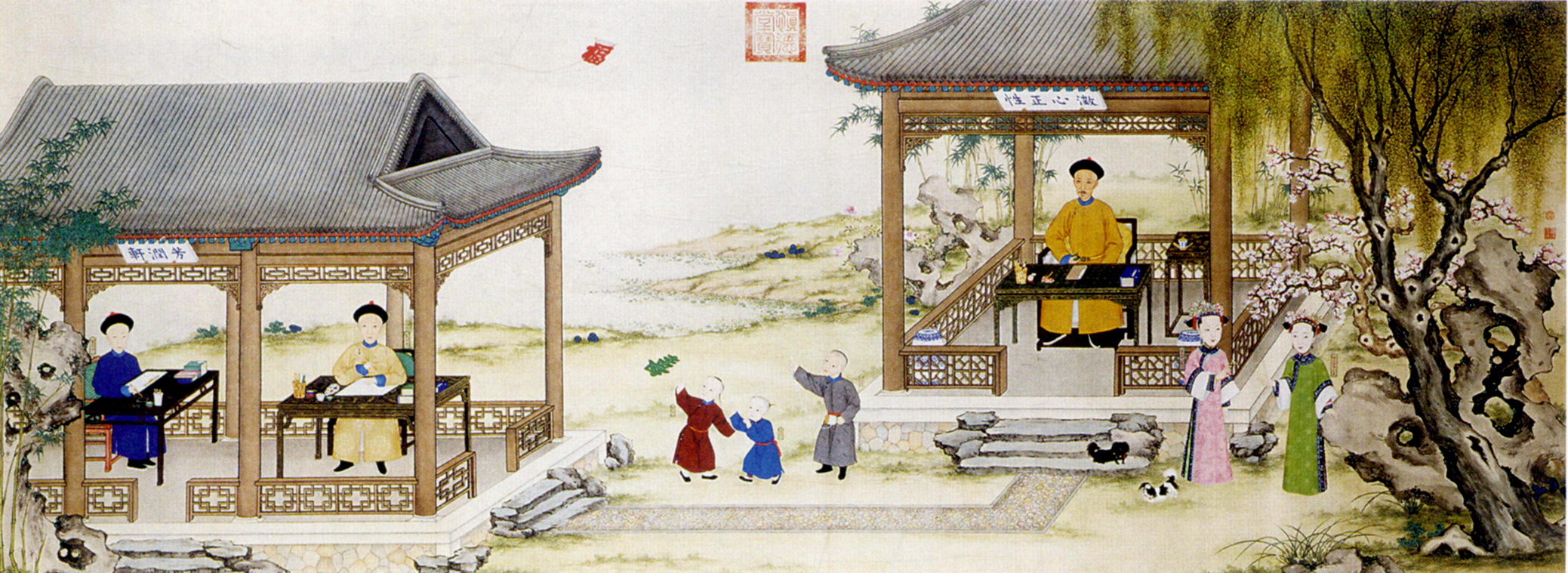 Daoguang Emperor